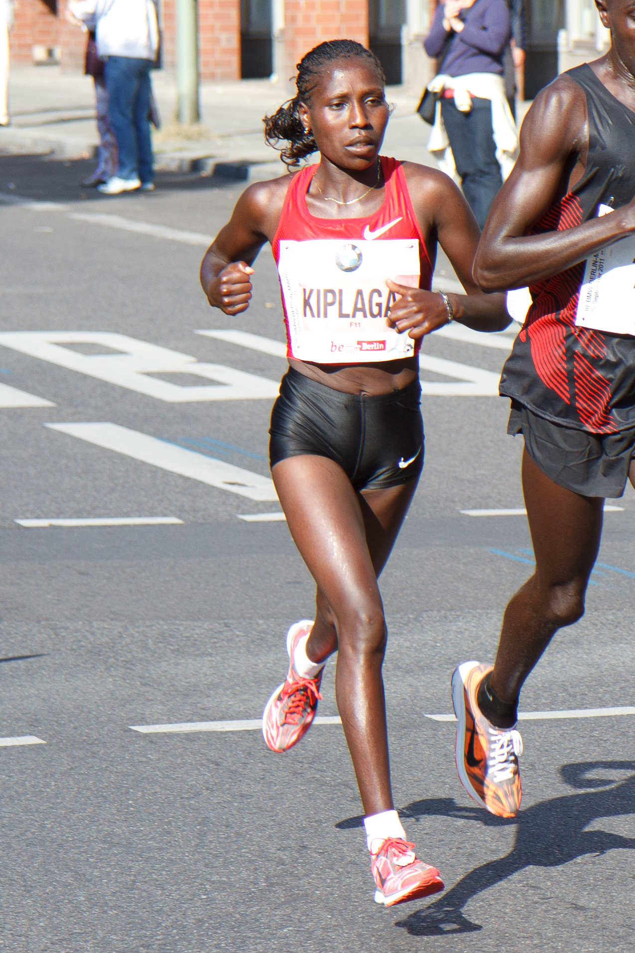 Florence Jebet Kiplagat winning the Berlin Marathon 2011